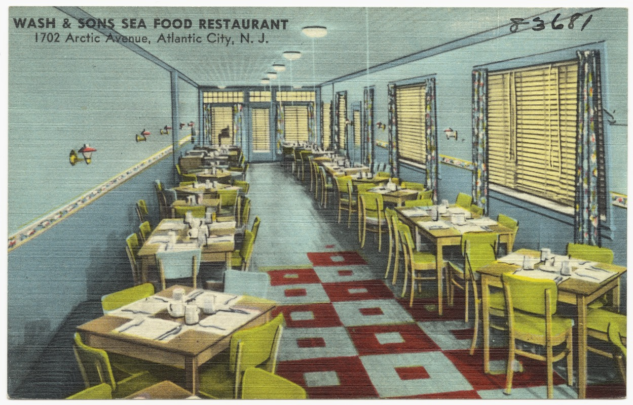 Postcard of Wash & Sons Seafood Restaurant, 1702 Arctic Avenue, Atlantic City, New Jersey